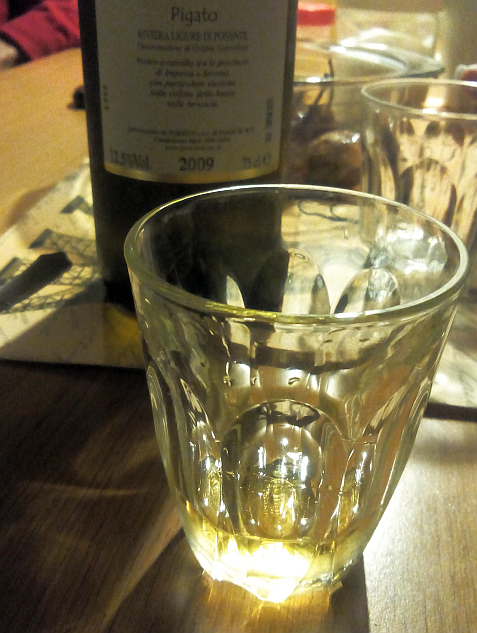 Pigato DOC year 2009